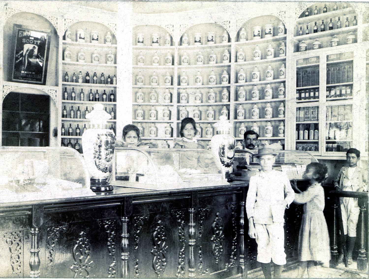 A black and white photograph of the pharmacy owned by Dr. Charles Fraser and his wife, Dr. Sarah Loguen Fraser, in Puerto Plata, the Dominican Republic